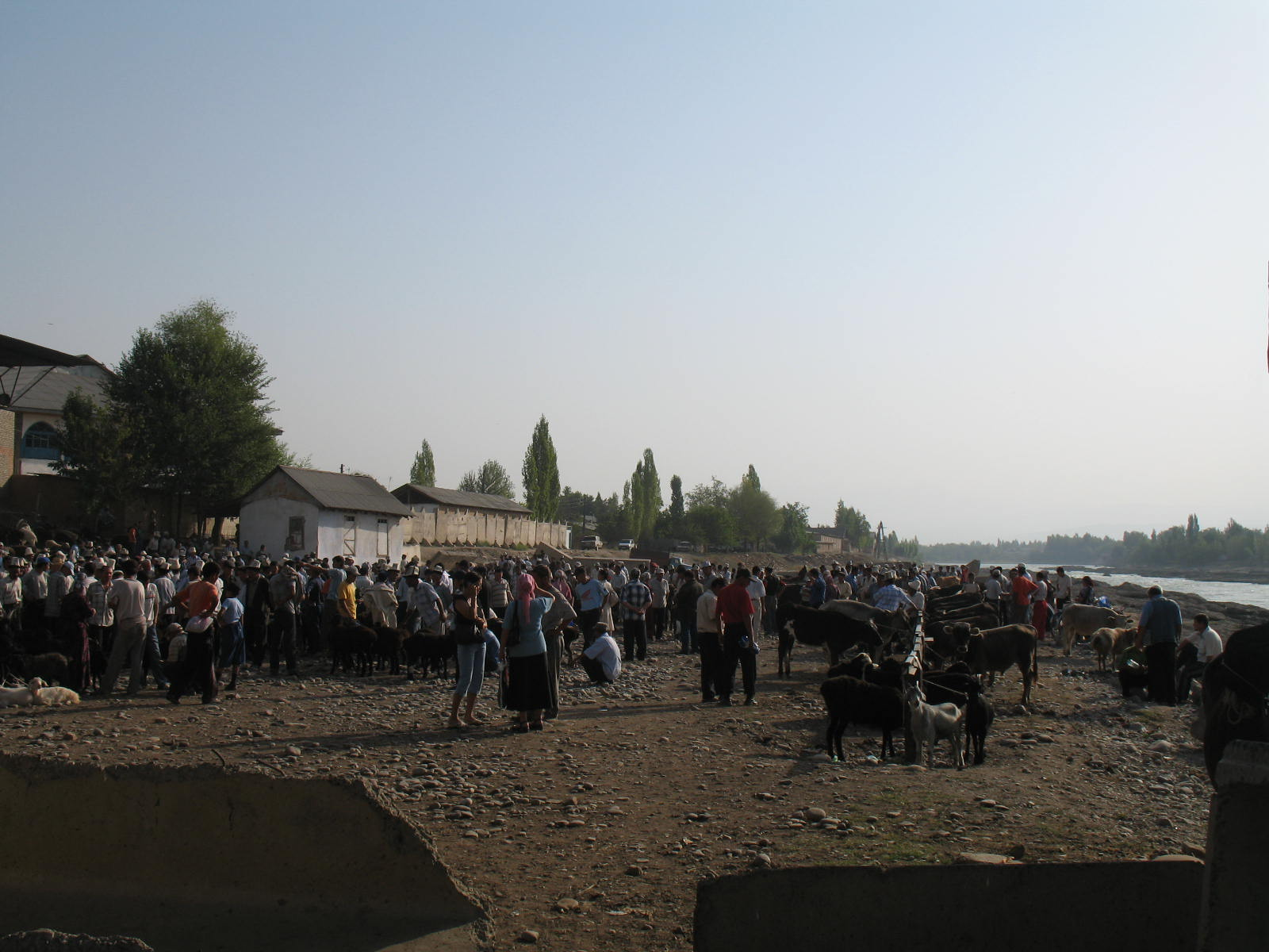 Animal bazaar in Kyzyl-Jar, Jalalabat, Kyrgyzstan. Кыргызча: Жалалабат обулусунда Аксы районунда Кызыл-Жар айылындагы мал базары.